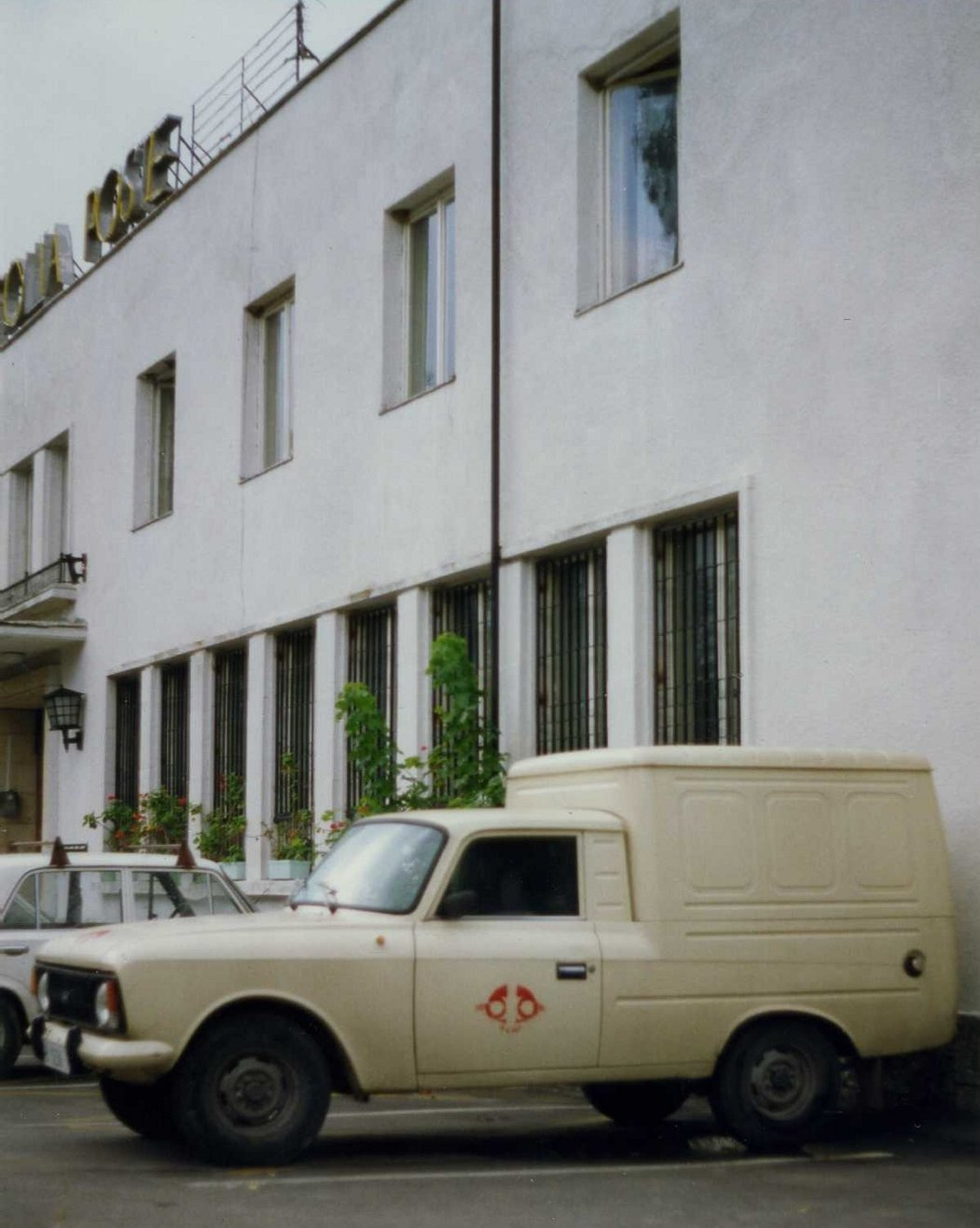 Druzhba Post Office and Van, Varna Oct 1993